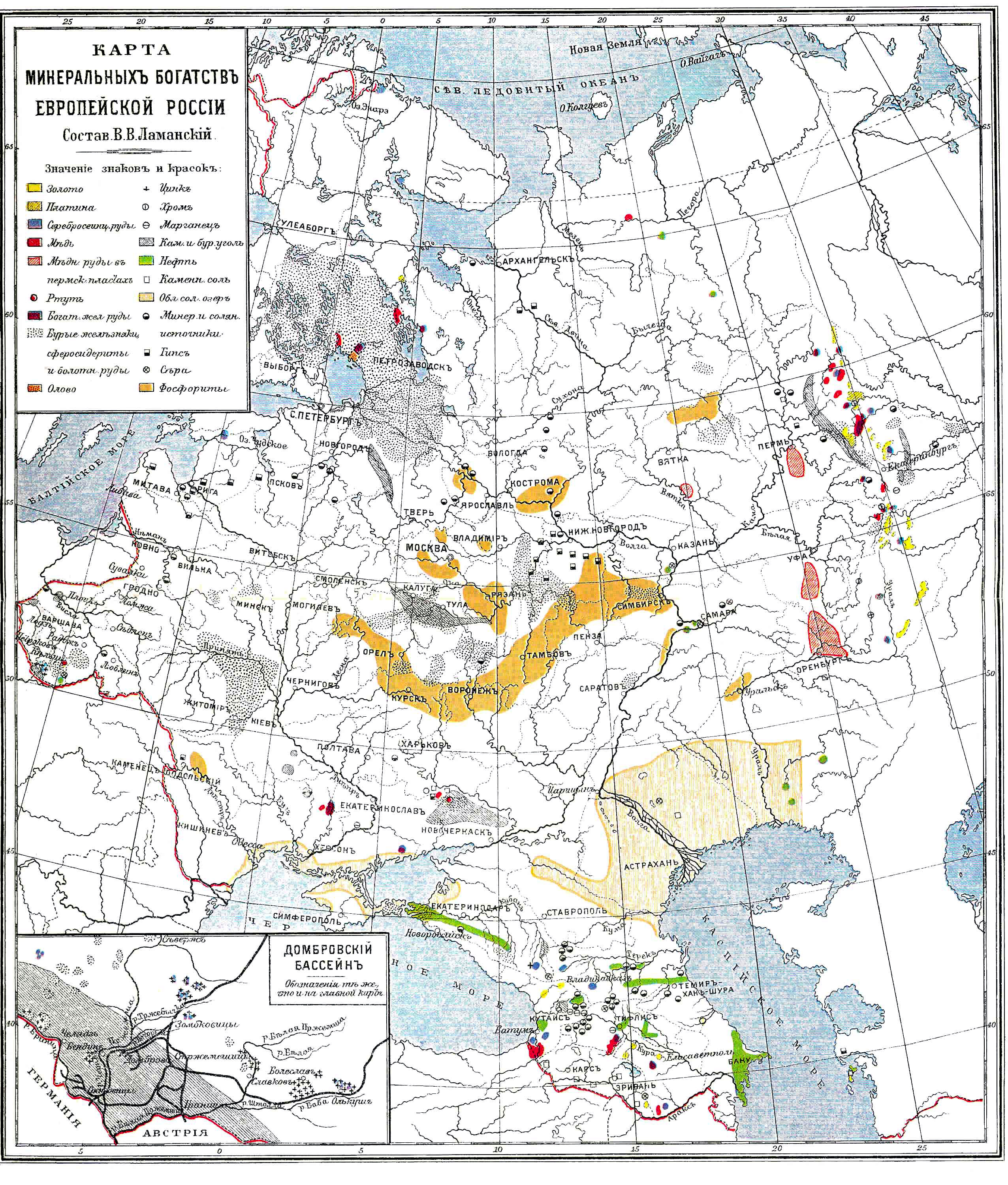 Illustration from Brockhaus and Efron Encyclopedic Dictionary (1890—1907)